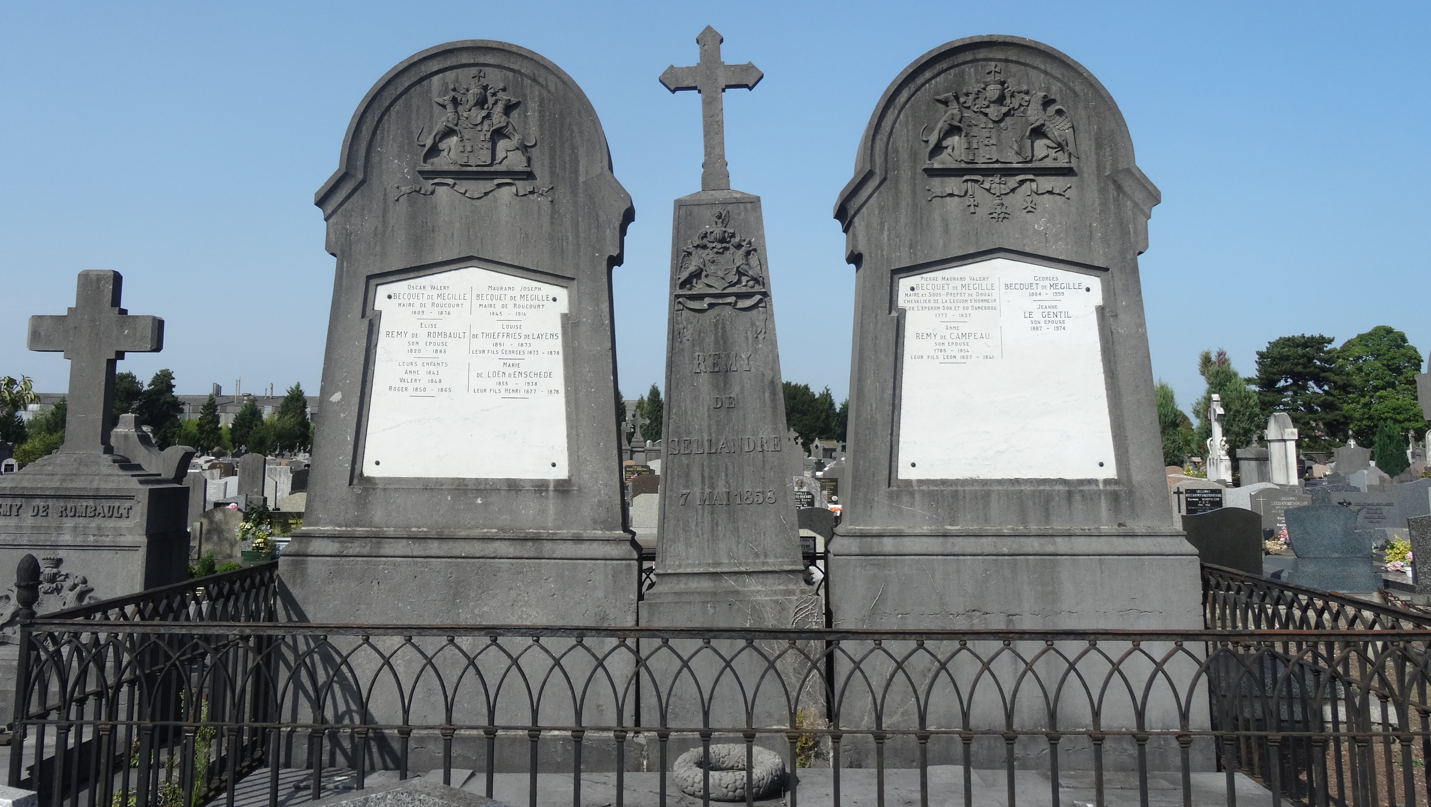 Grave of Q3383377, Q69392920 and Q69392666 Depicted place: Douai Communal Cemetery